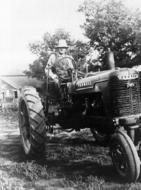 Farmall H, Nels Ugland in Lyon County, Iowa, USA, circa 1948 My Personal Photo